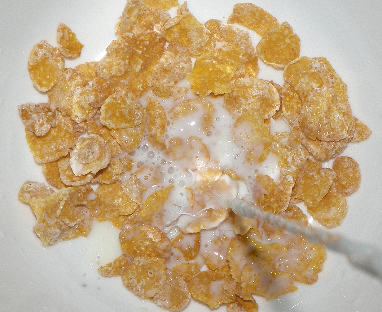 Milk being added to Kellogg's Frosted Flakes cereal.